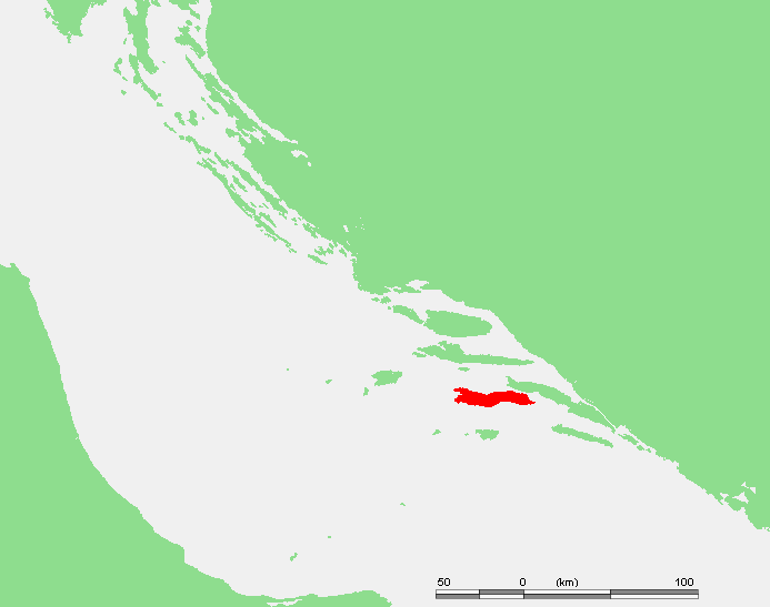 Island of Croatia - Croatia - Korcula.PNG